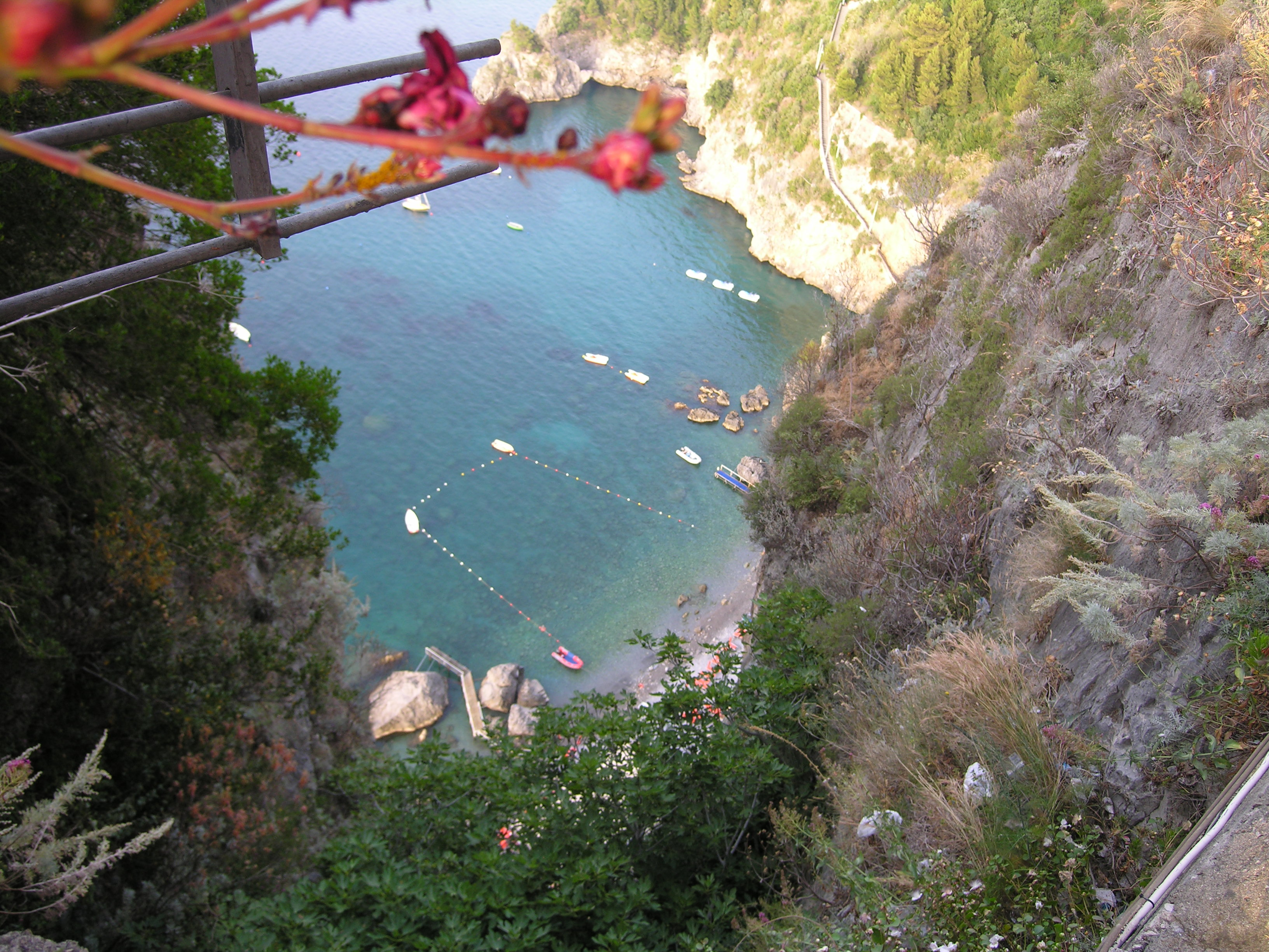 Amalfi Coast, Italy, 1.5 km western from Amalfi, view on Santa Croce beach